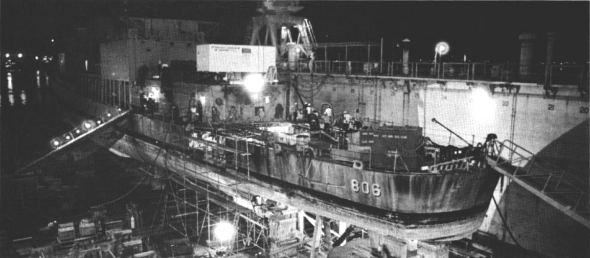 The U.S. Navy destroyer USS Higbee (DD-806) under repair in Floating Drydock AFDM-6 at the Ship Repair Facility at Subic Bay, Philippines, circa in May 1972. On 19 April 1972, Higbee became the first U.S. warship to be bombed during the Vietnam War, when two North Vietnamese Air Force Mikoyan-Gurevich MiG-17s from the 923rd Fighter Regiment attacked, one of which, piloted by Le Xuan Di, dropped a 250 kilogram bomb onto Higbee's rear 127 mm gun mount, destroying it. The 127 mm gun crew had been outside their turret, due to a misfire within the mount, when the air attack occurred, which resulted in the wounding of four U.S. sailors.